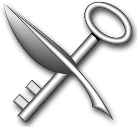 US Navy Ship's Serviceman (SH). Crossed key and quill; stem of key and pen nib down; pen to be upper­most; web and pin of key to the front.